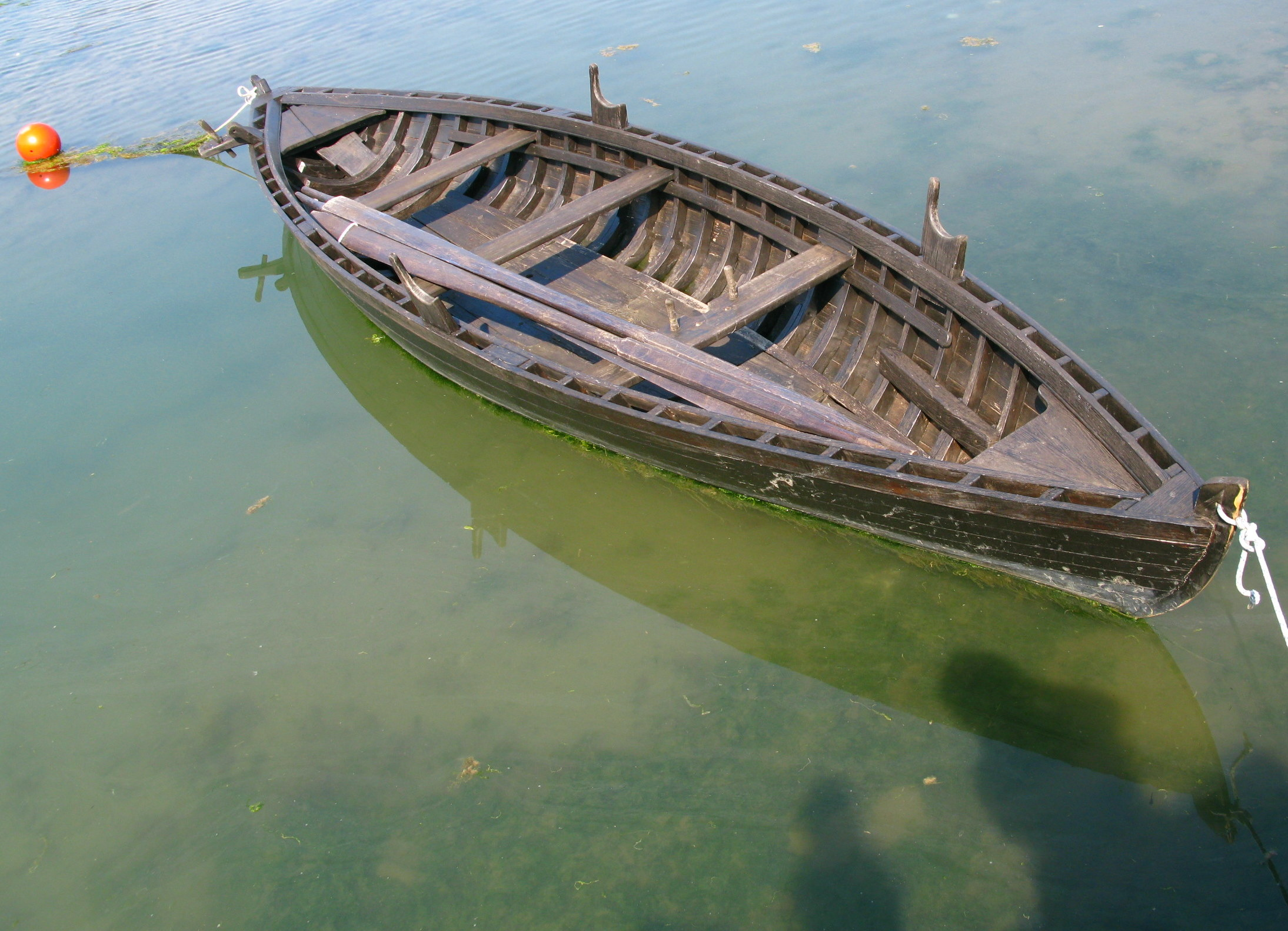 One of oldest typ of croatian boats, rebuild in Nin, Croatia.